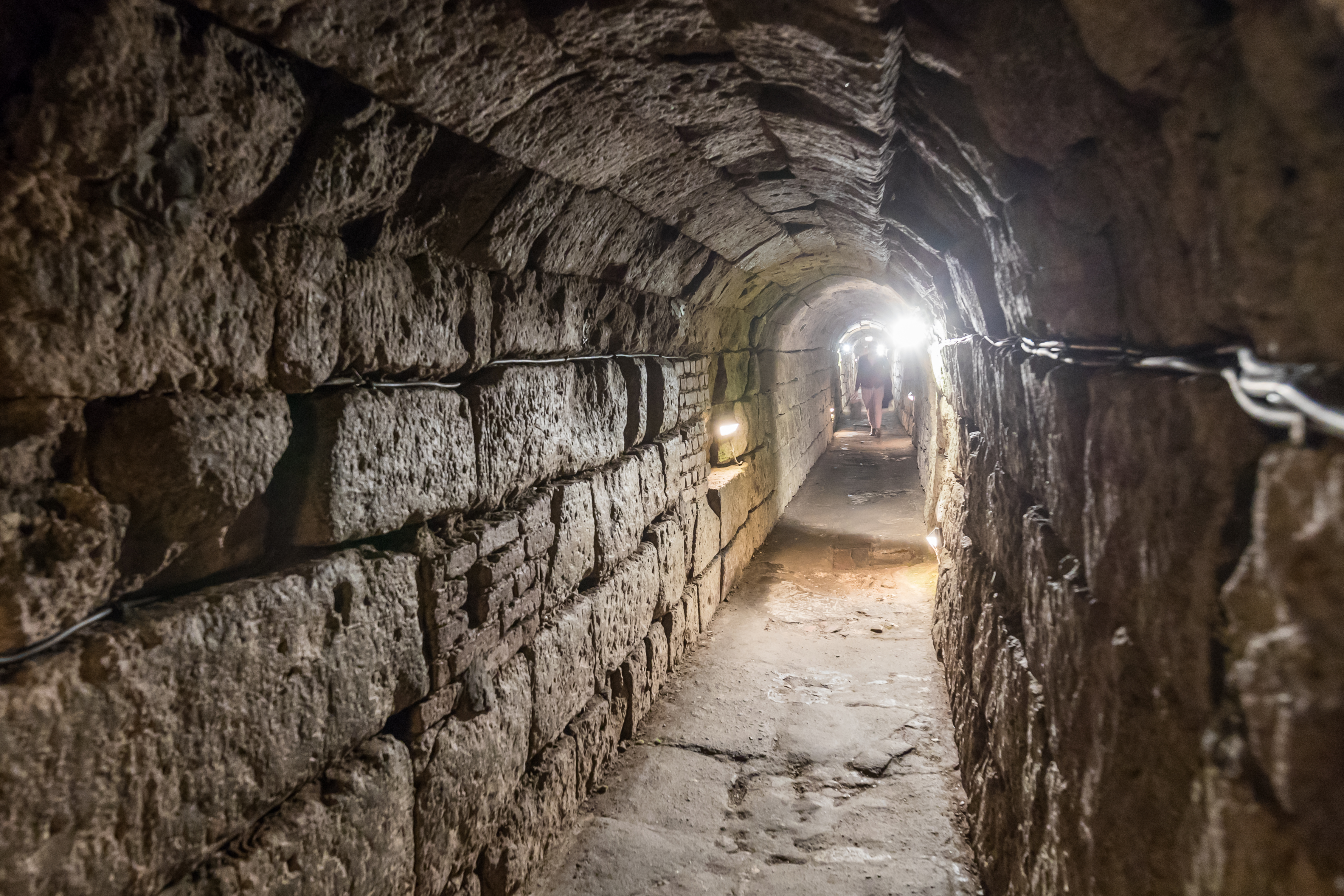 Roman sewer tunnel in Cologne